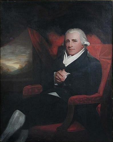 Portrait of Sir Walter Farquhar, 1st Bt, (1738-1819), by Sir Henry Raeburn. Painted c.1790